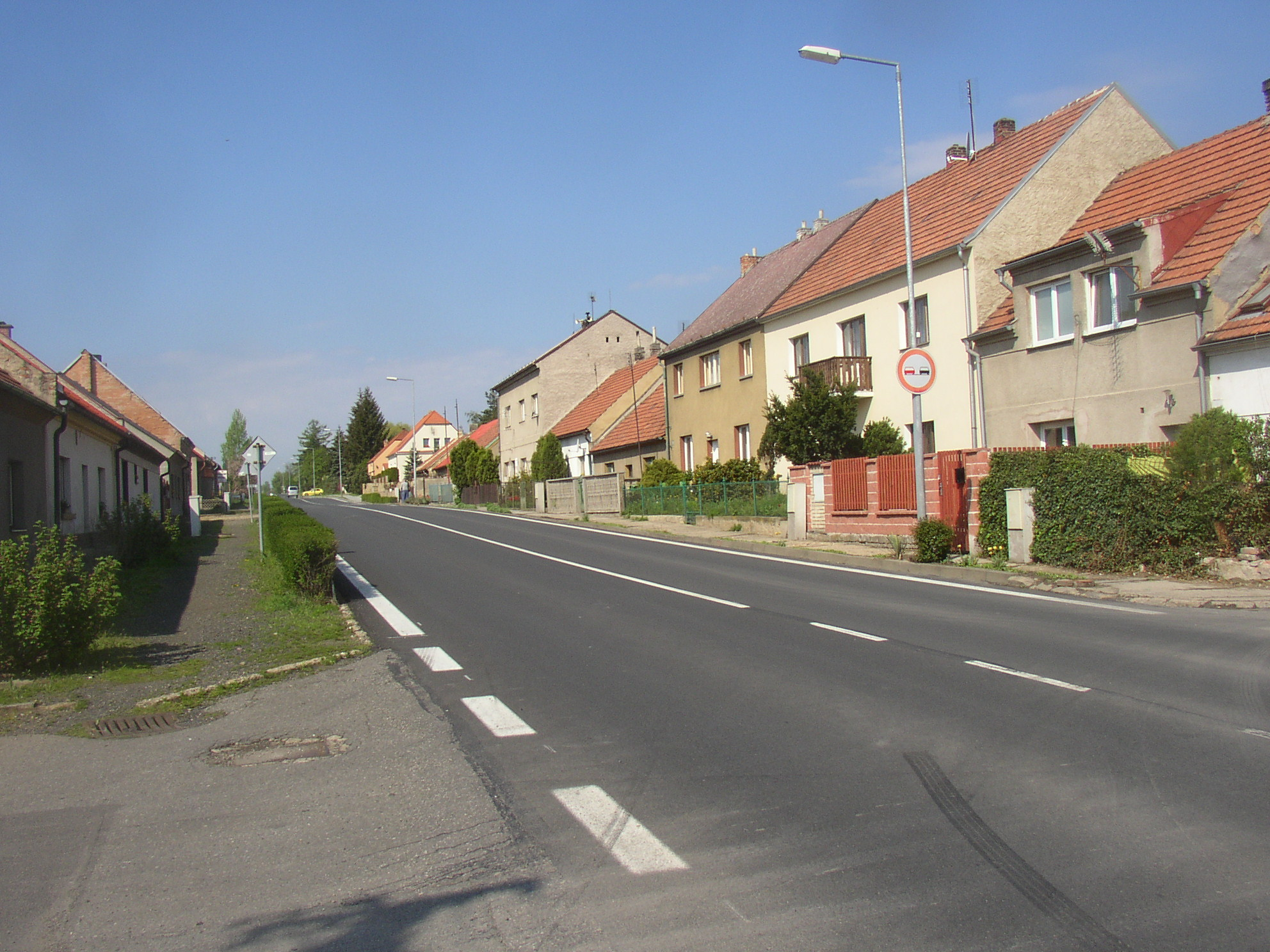 Road I/16 pasing through village of Tuřany, Kladno District, Czech Republic. A view towards west.